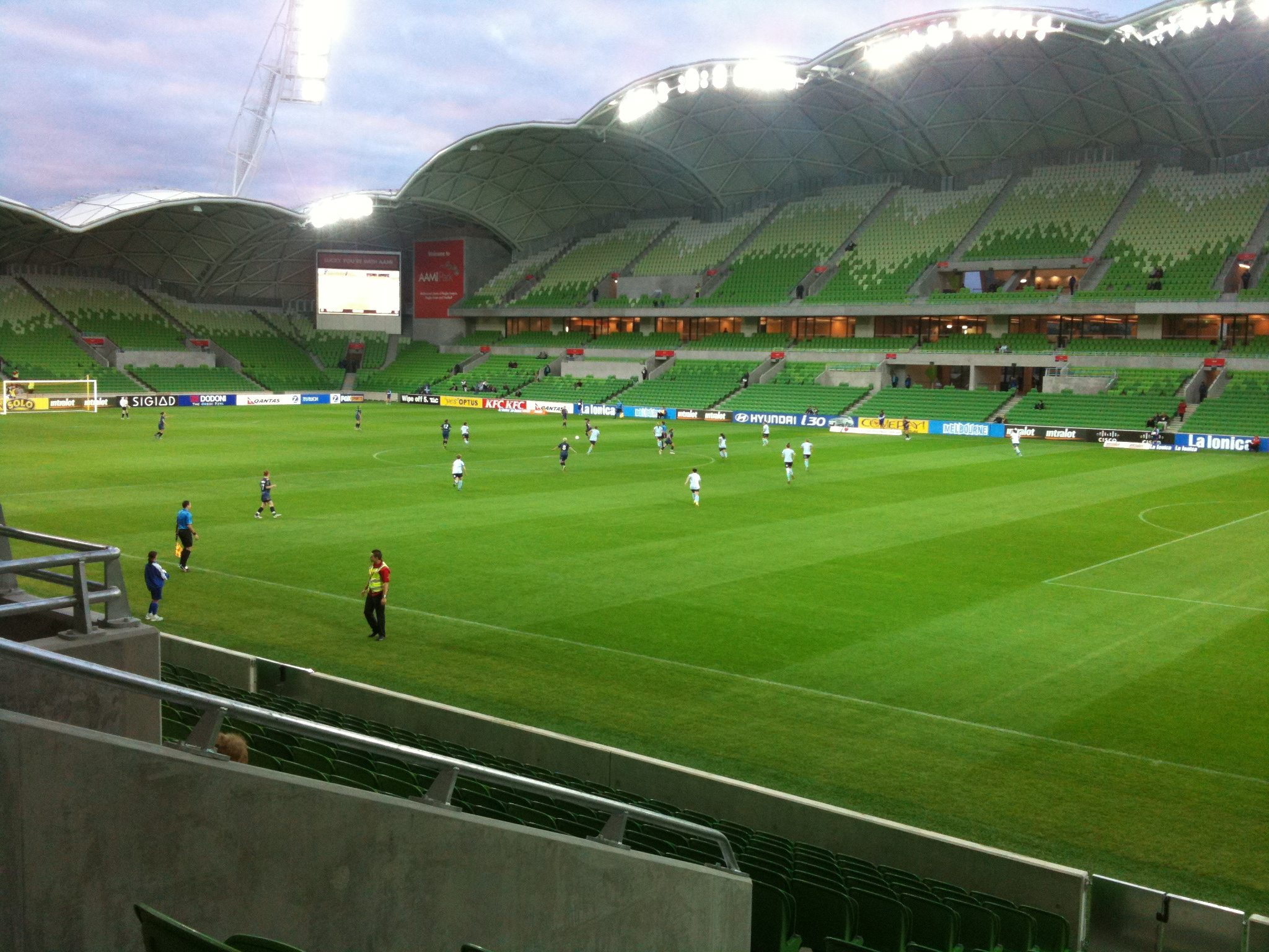 Photo taken at AAMI Park, Melbourne. Melbourne Victory vs Come Play XI.